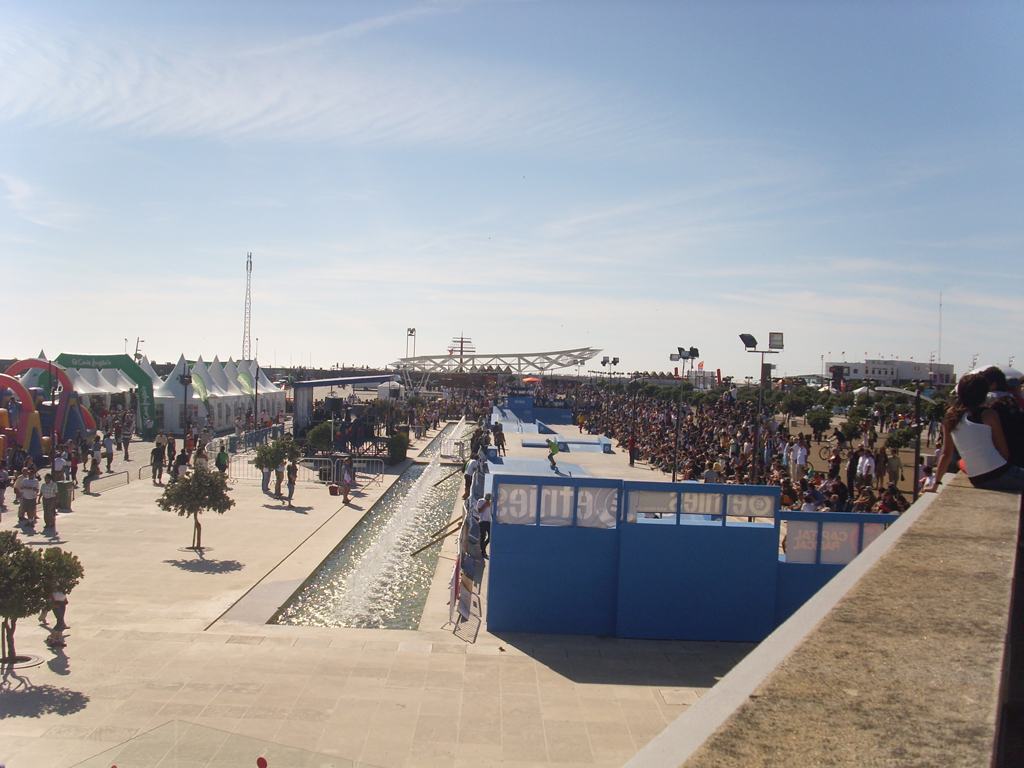 Lota Sk8 Parque during Capital Radical show.